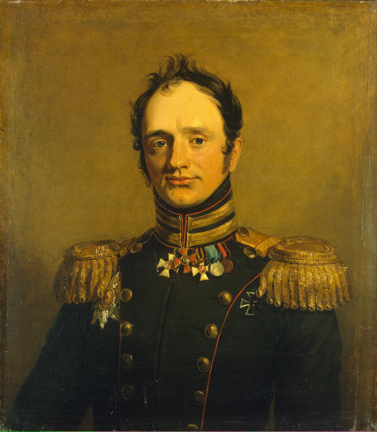 Boris Hristoforovich Rikhter (12.11.1782 – 03.10.1832) russian general